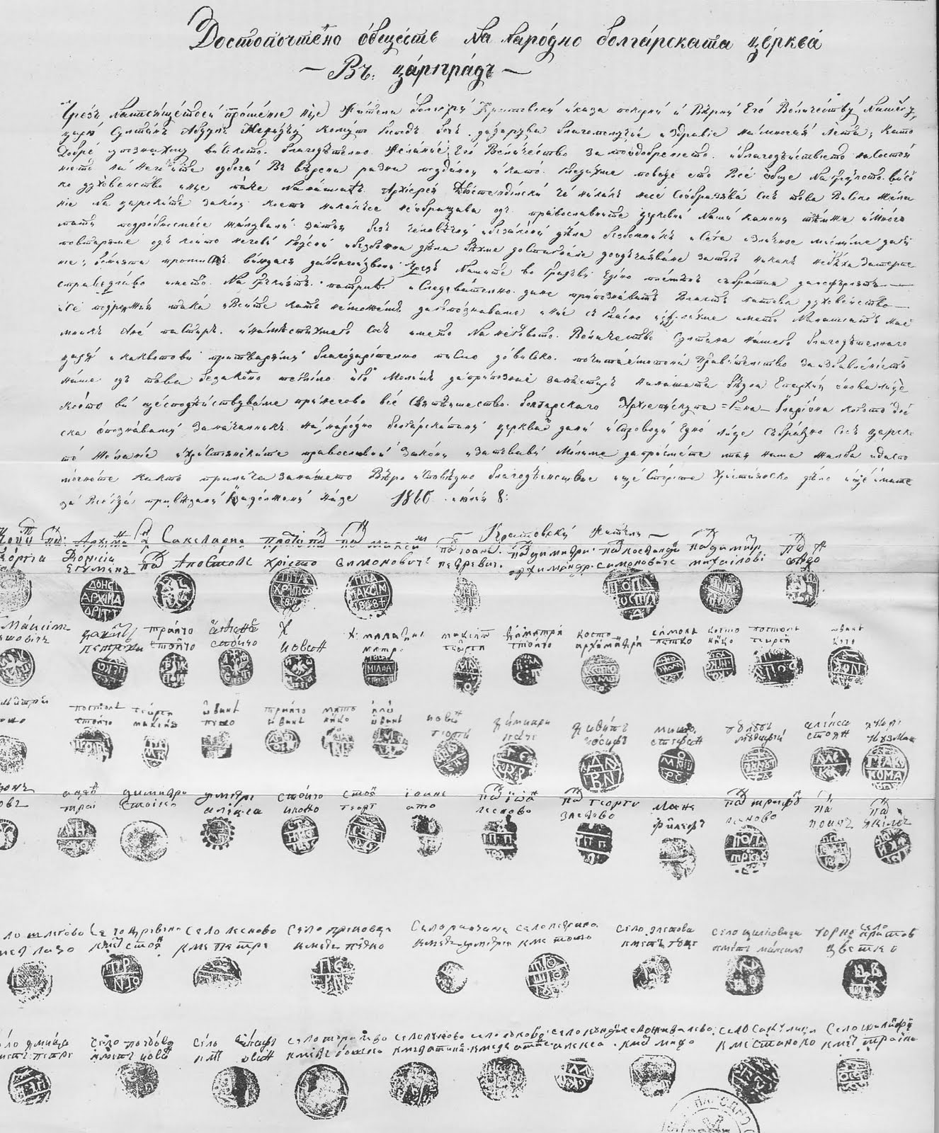 Plea for bulgarian mitropolite